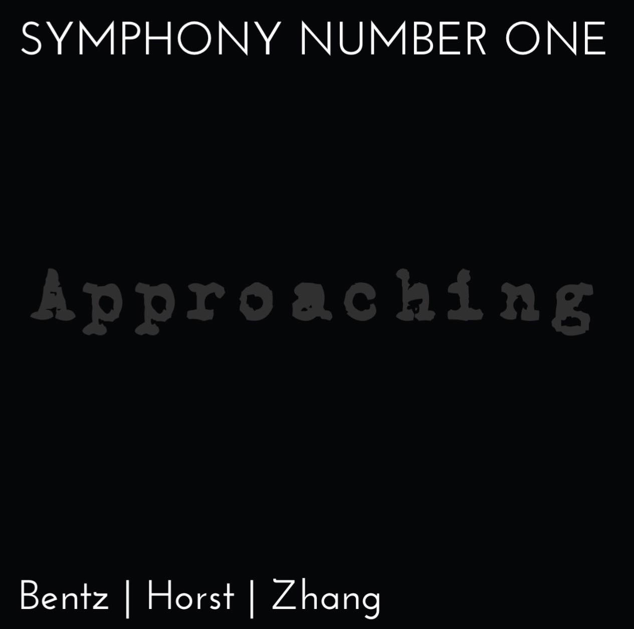 Symphony Number One: Approaching. Album Cover